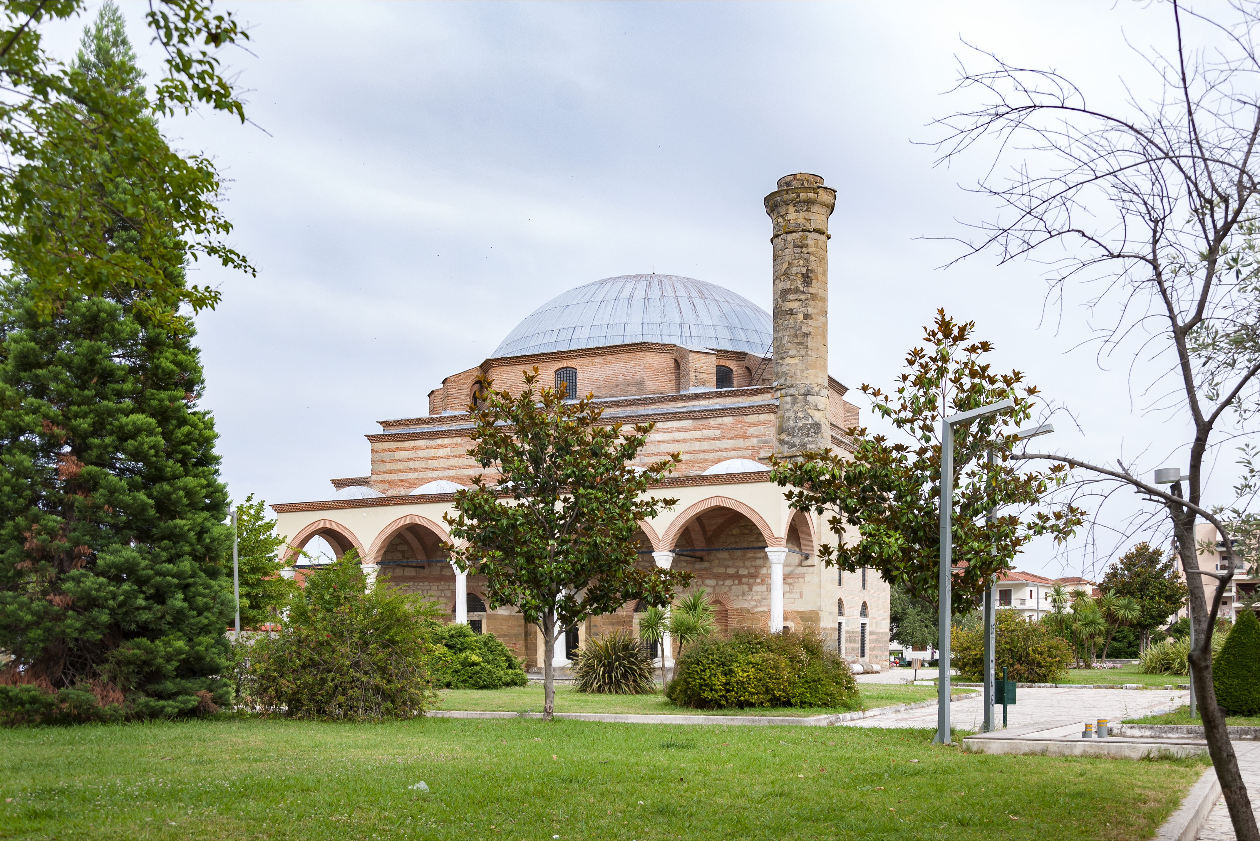 Kursum Mosque or Osman Shah Mosque in Trikala, Thessaly, Greece